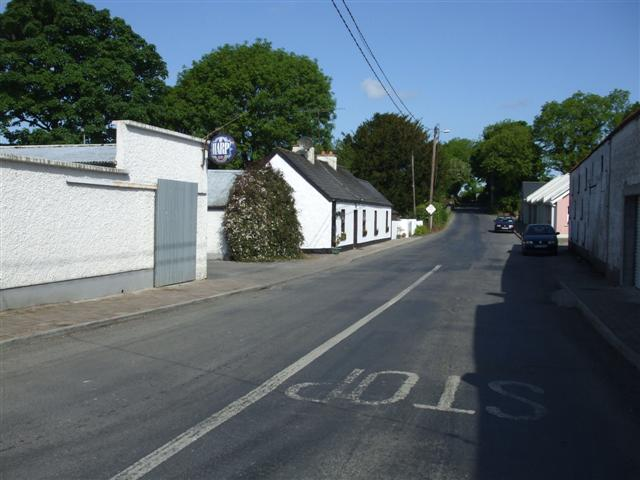 Road at Ballintogher Looking south-west